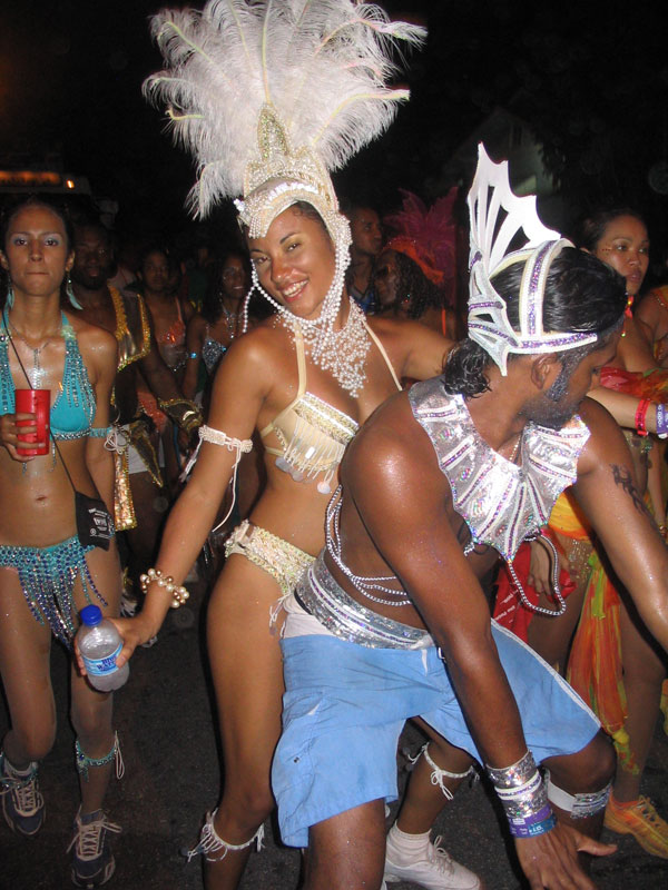 Two Revelers "Wining" in Trinidad's Carnival